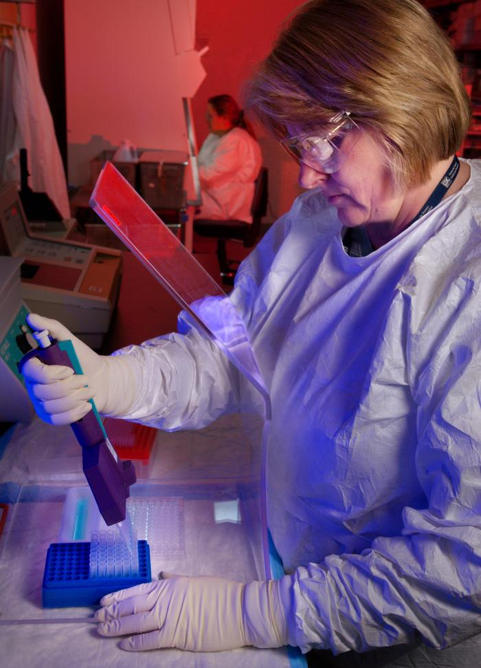 Depicted in this 2007 was CDC microbiologist Susan Phillips, using an Enzyme Linked ImmunoSorbent Assay (ELISA) test, in order to develop a method for the rapid detection of HIV p24 antigen in blood samples. Biologist Trudy Dobbs can be seen in the background working inside the confines of negatively pressurized Biological Safety Cabinet (BSC), where she was preparing samples for testing. Ms. Phillips and Ms. Dobbs are National Center for HIV/AIDS, Viral Hepatitis, STD, and TB Prevention (NCHHSTP) staff members, who works inside the center’s Laboratory Branch (LB).